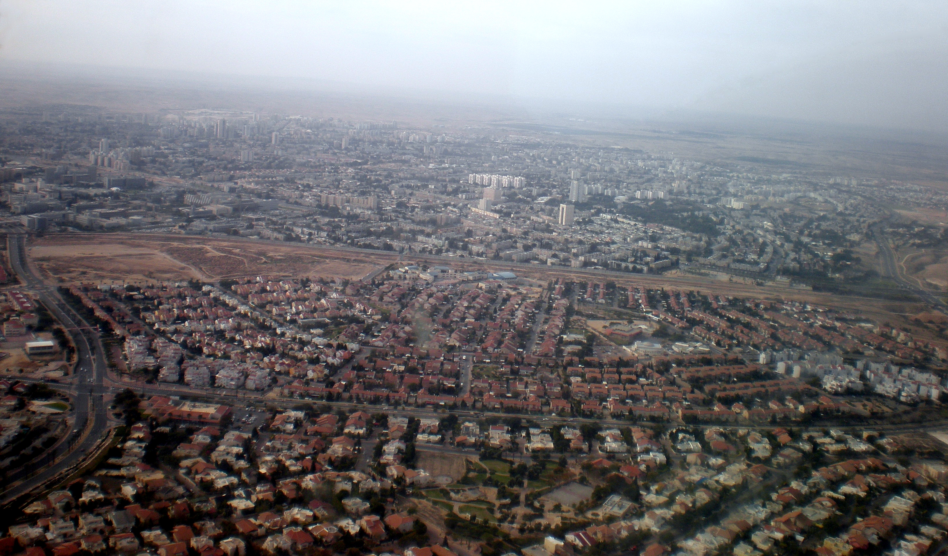 Aerial photo of Beersheba